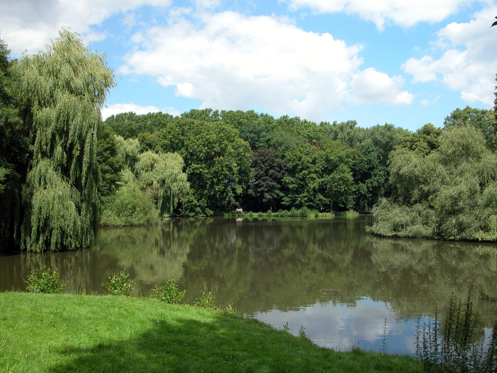 Braunschweig, Germany: Pond in the Bürgerpark (Citizens’ Park).